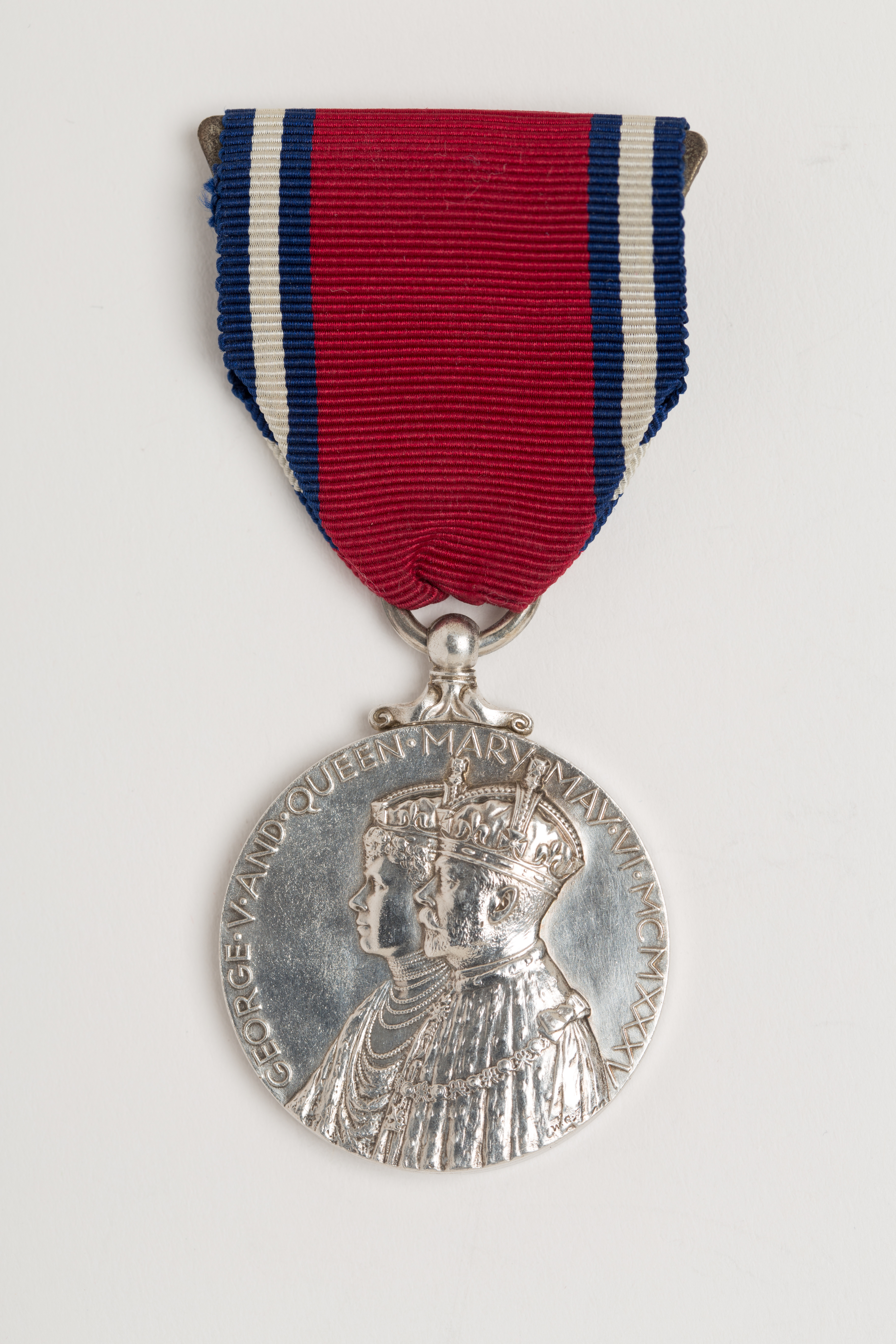 George V Jubilee 1935 Medal awarded to C Reginald Ford (FRIBA FRGS) circular silver medal; with ribbon obverse- conjoined busts of King George V and Queen Mary; GEORGE V AND QUEEN MARY MAY VI MCMXXXV reverse- crown above royal cypher GRI; dates either side- MAY 6 1910 MAY 1 1935 ribbon- crimson with blue, white and blue stripes either side